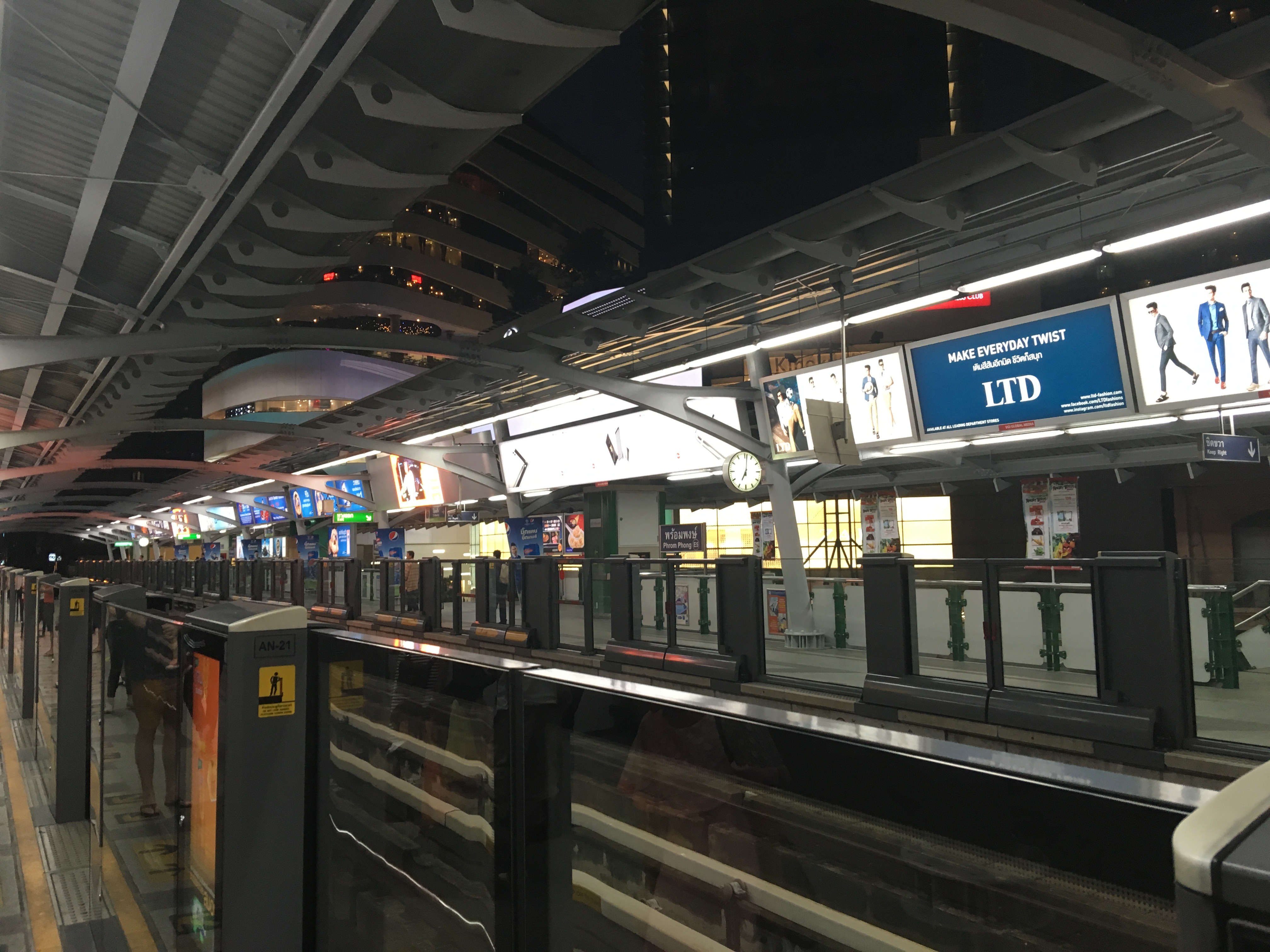 BTS Phrom Phong Station at night